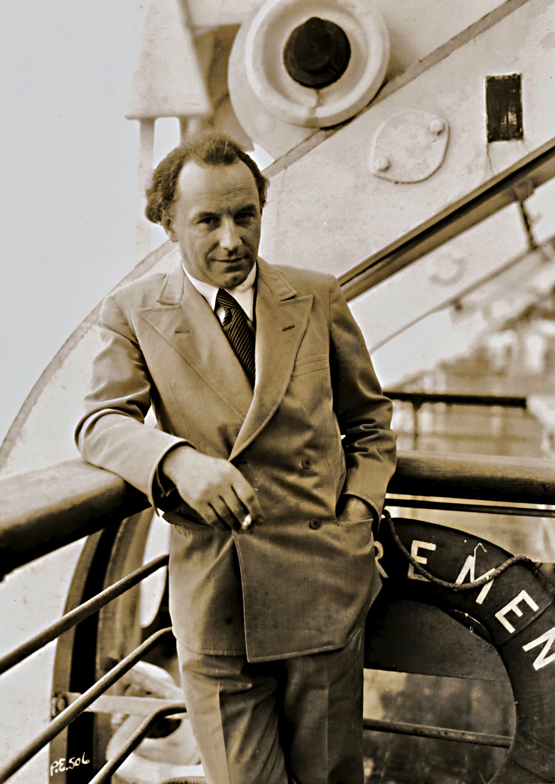 Arnold Fanck in spring 1939 aboard German luxury liner SS Bremen which in 1929 won the Blue Riband as fastest ocean liner between Europe and New York City. Fanck, his second wife Elisabeth „Lisa“ with his two sons Arnold Ernst (* 1919) and Hans-Joachim (*1935) as well as Fanck's film team were on their way home on this steamer from South America to NYC. Fanck had just finished filming on different sets in Patagonia, Tierra del Fuego and the Juan Fernández Islands for his upcoming movie A German Robinson Crusoe (1940) which wasn't accepted by Joseph Goebbels. The chief of the Nazi propaganda regarded the figure of Robinson as antisocial and in so far as an unwanted role model in Nazi ideology which was referring to a so called „Volksgemeinschaft“ (= people's community). Due to his orders the filmed material was cut to a profane propaganda movie for the German Navy.